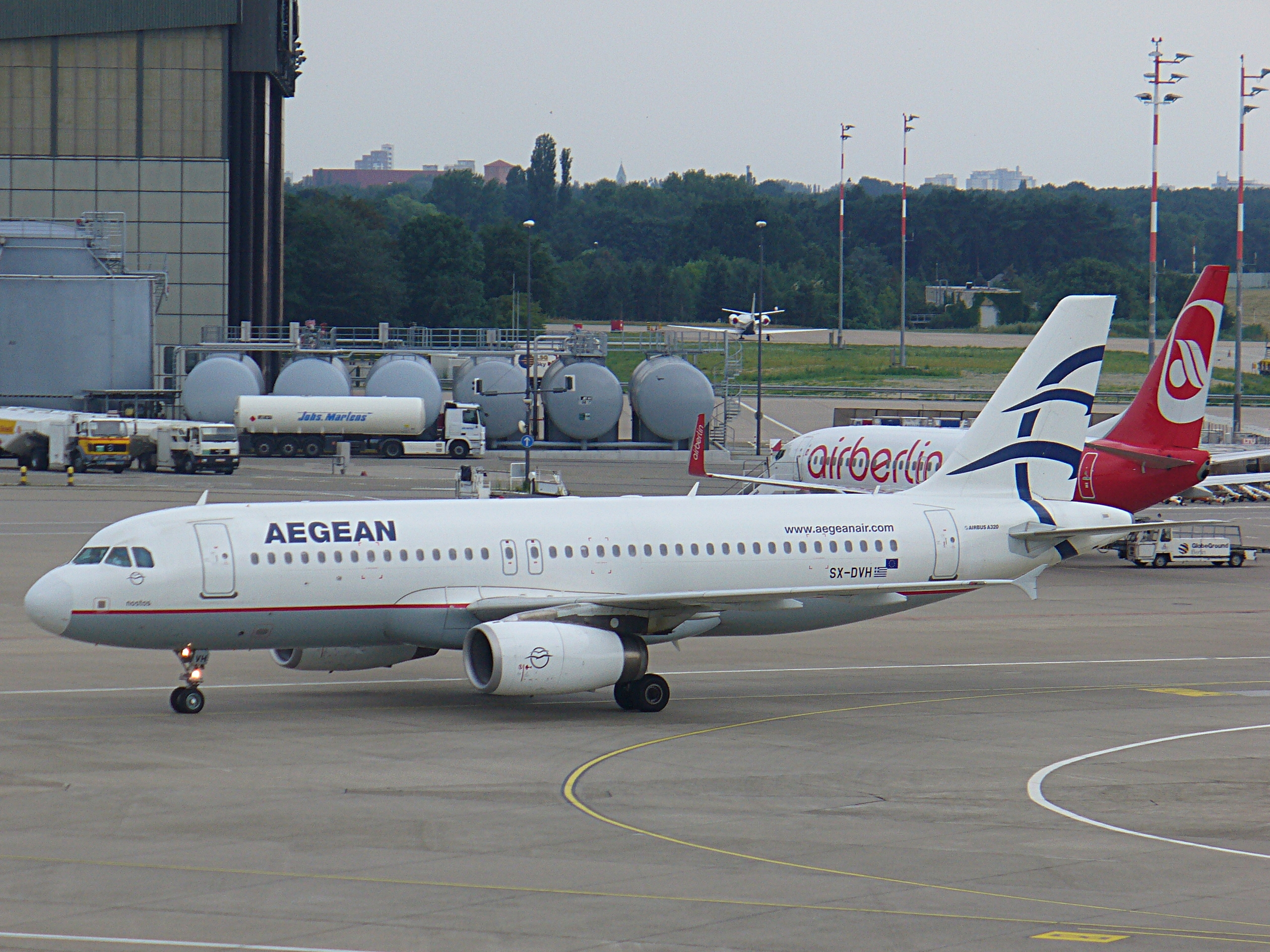 Airbus A320-200 of Aegean Airlines at Berlin Tegel Airport